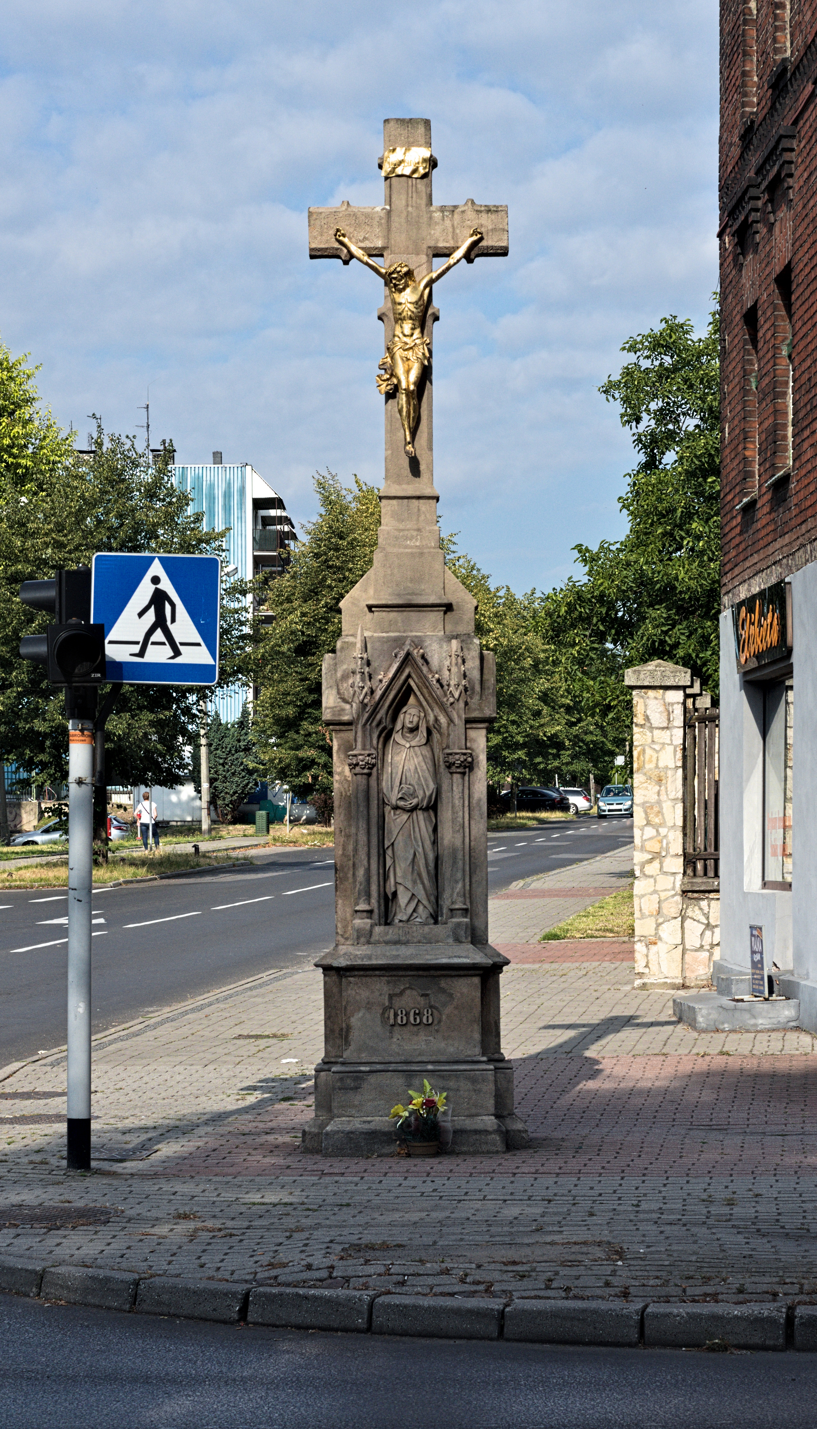 stone cross in Piekary Śląskie-Szarlej, Bytomska 101 Street / Pod Lipami Street, Poland called in